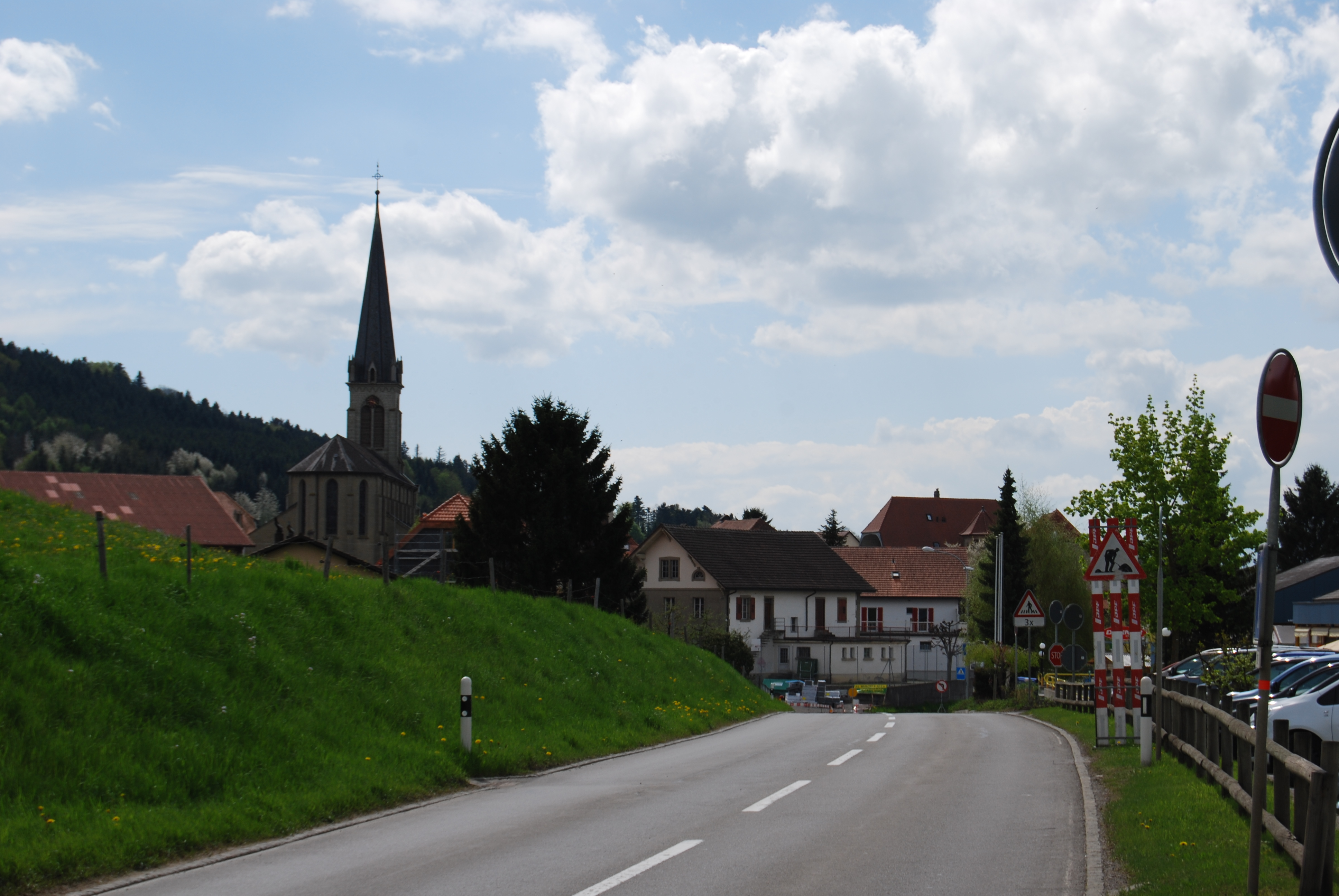 Church Saint Vincent at Farvagny, canton of Fribourg, Switzerland